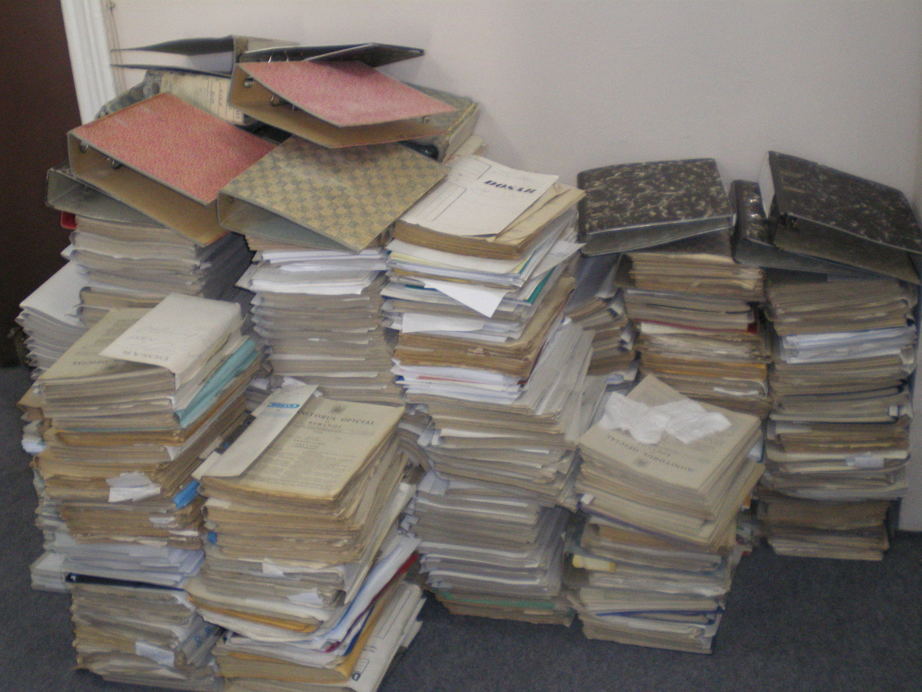 Administrative burden in Bucharest (Rumania)